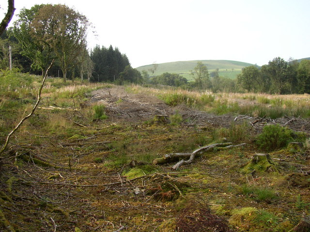 Tree clearing This area is being coppiced , although to the left of picture - and on other side of the road (out of view) - the trees have remained. The coppiced area has opened up a view to the hillside beyond.